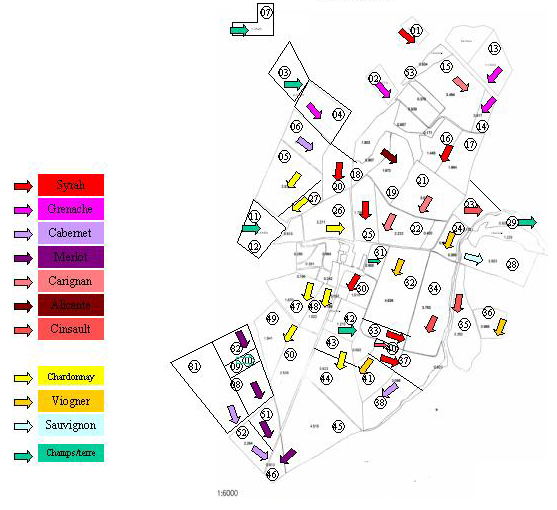 Winegrap in Pailhès